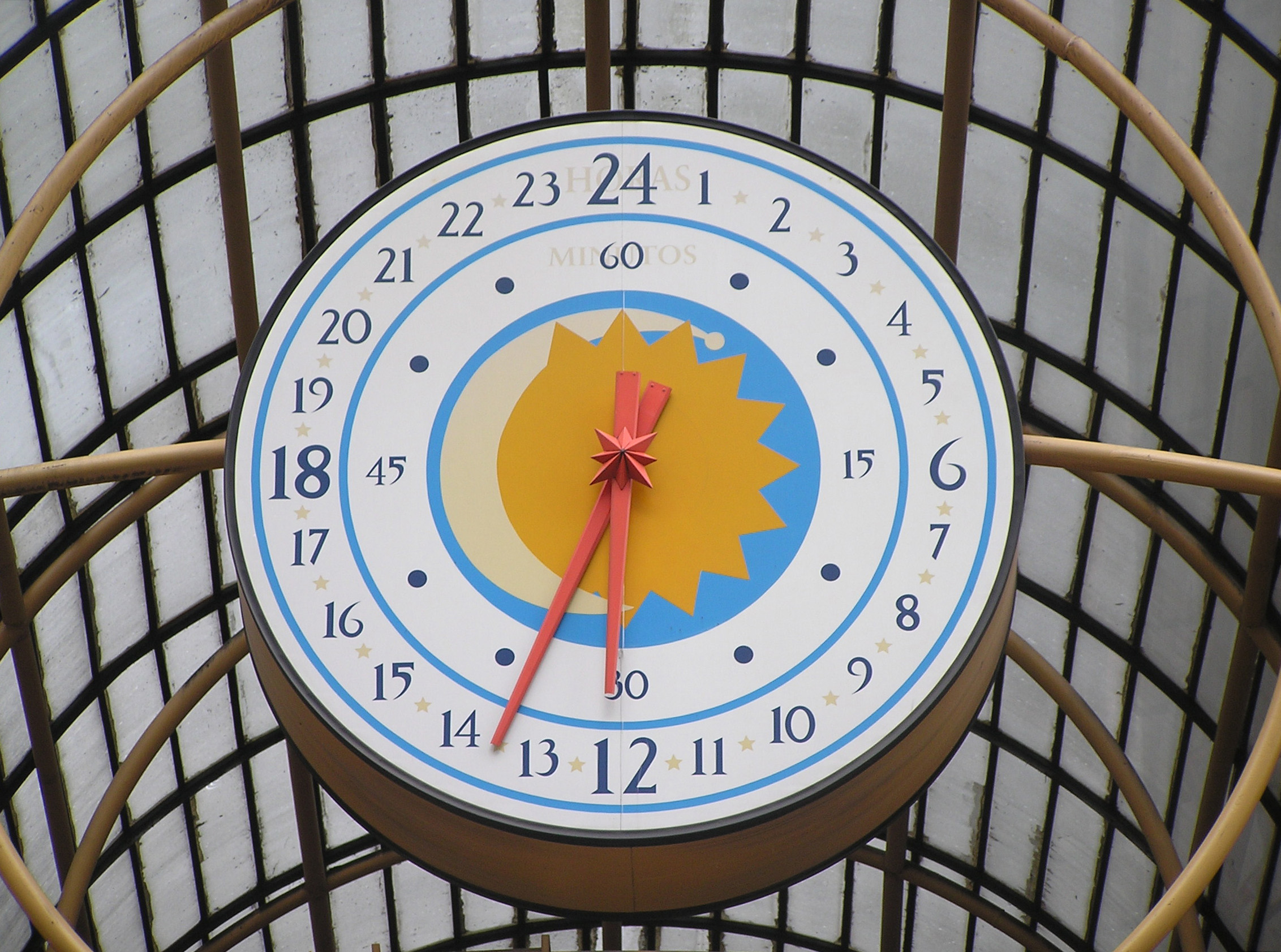 24 hour analog clock (the outside is 'hour' and the inside is 'minute') of Rua 24 horas (24 hour street).